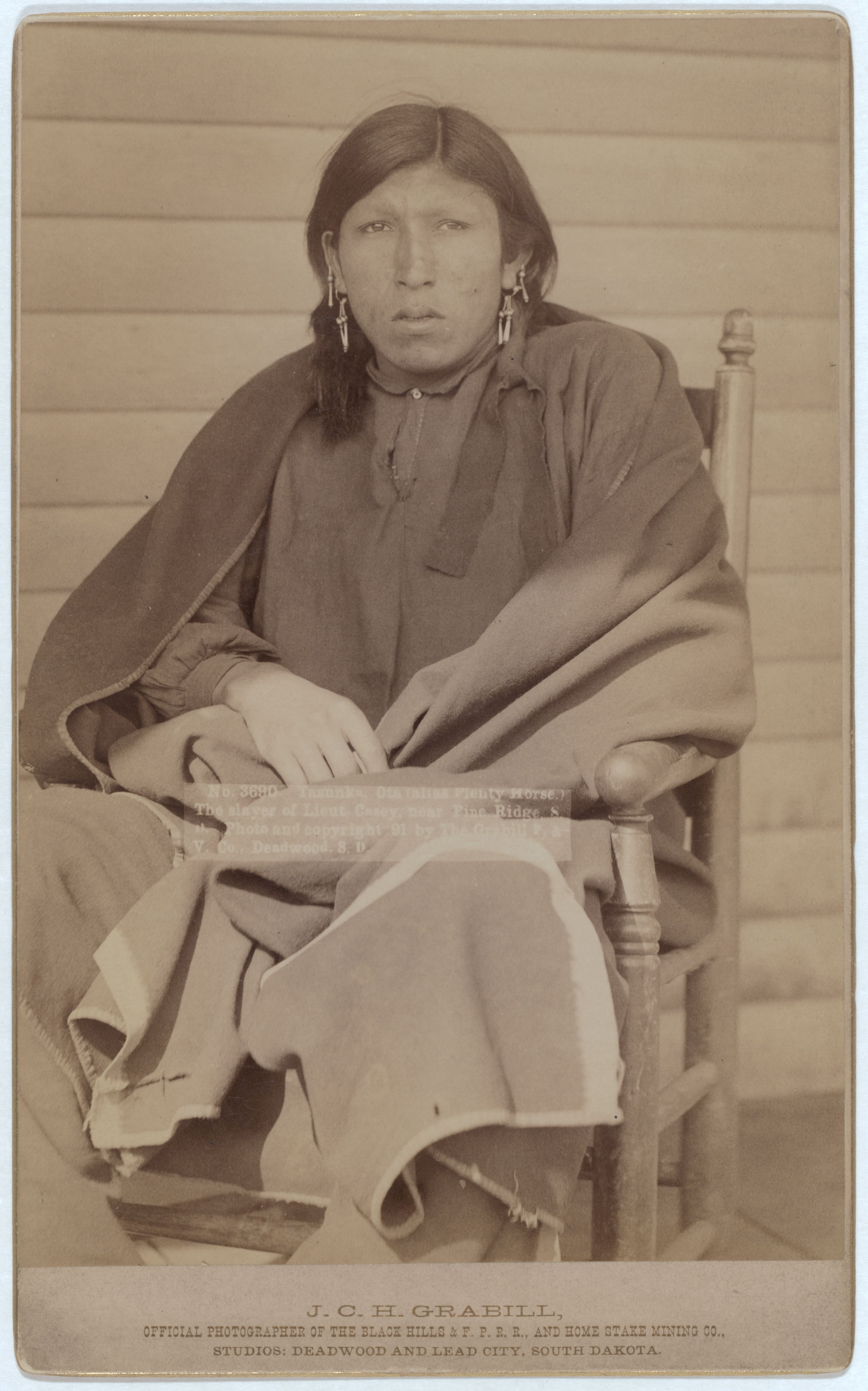 Original title Tasunka, Ota (alias Plenty Horse[s]), the slayer of Lieut. Casey, near Pine Ridge, S.D. Plenty Horses, Oglala man, three-quarter length portrait, seated, facing front, with a blanket wrapped around his shoulders--probably on or near Pine Ridge Reservation.